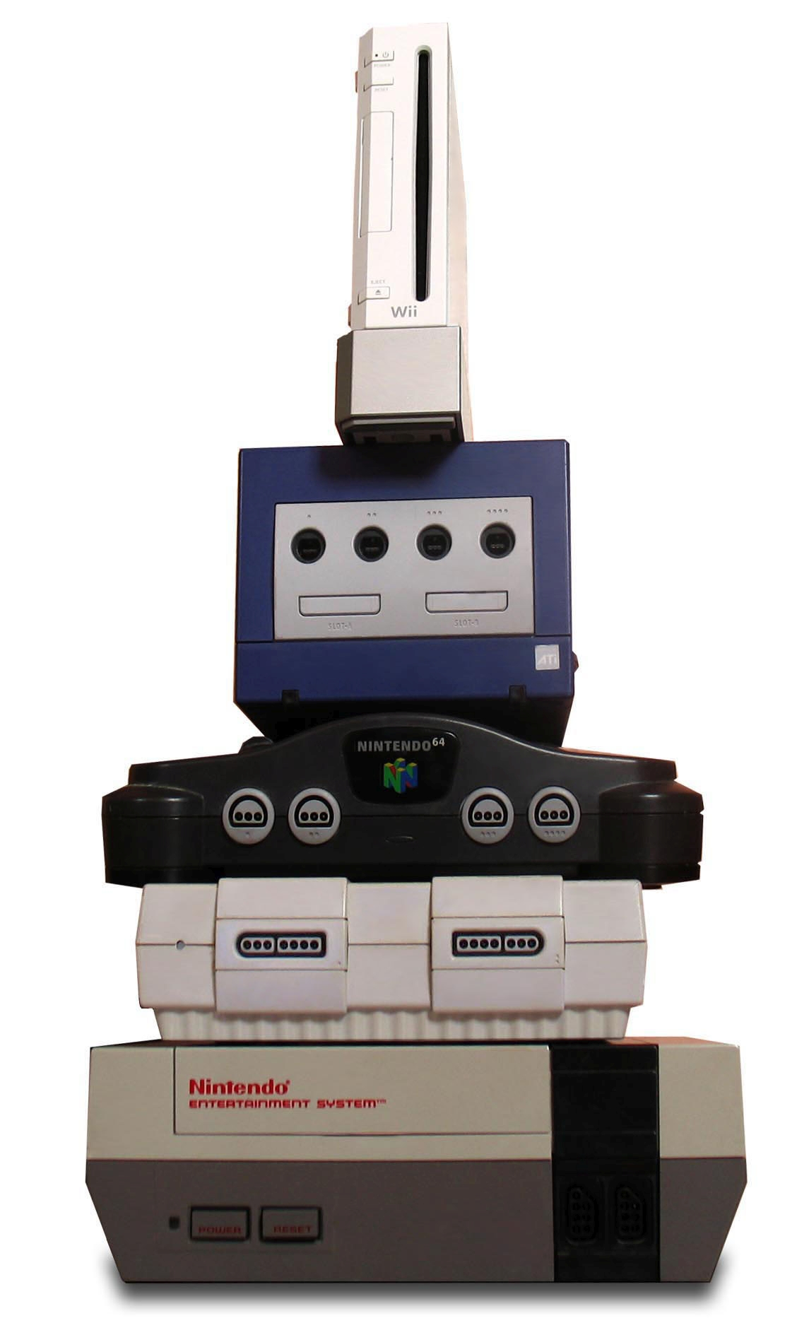 Nintendo Entertainment System, Super Nintendo Entertainment System, Nintendo 64, Nintendo GameCube and Wii. Edited in Adobe Photoshop CS for: color correction to compensate for color of surrounding wall, background transparency to focus attention on actual subjects, and a drop shadow for "a creative touch".The Wii's the smallest, with the NES to be the largest (N64 is almost the NES's size). I, Wuffyz, created this work. "I am Wii, king of video games!" Further editing was done due to visual imperfections.